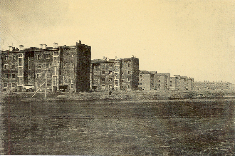 Social Town of Sibselmash Plant, Novosibirsk, 1930s.